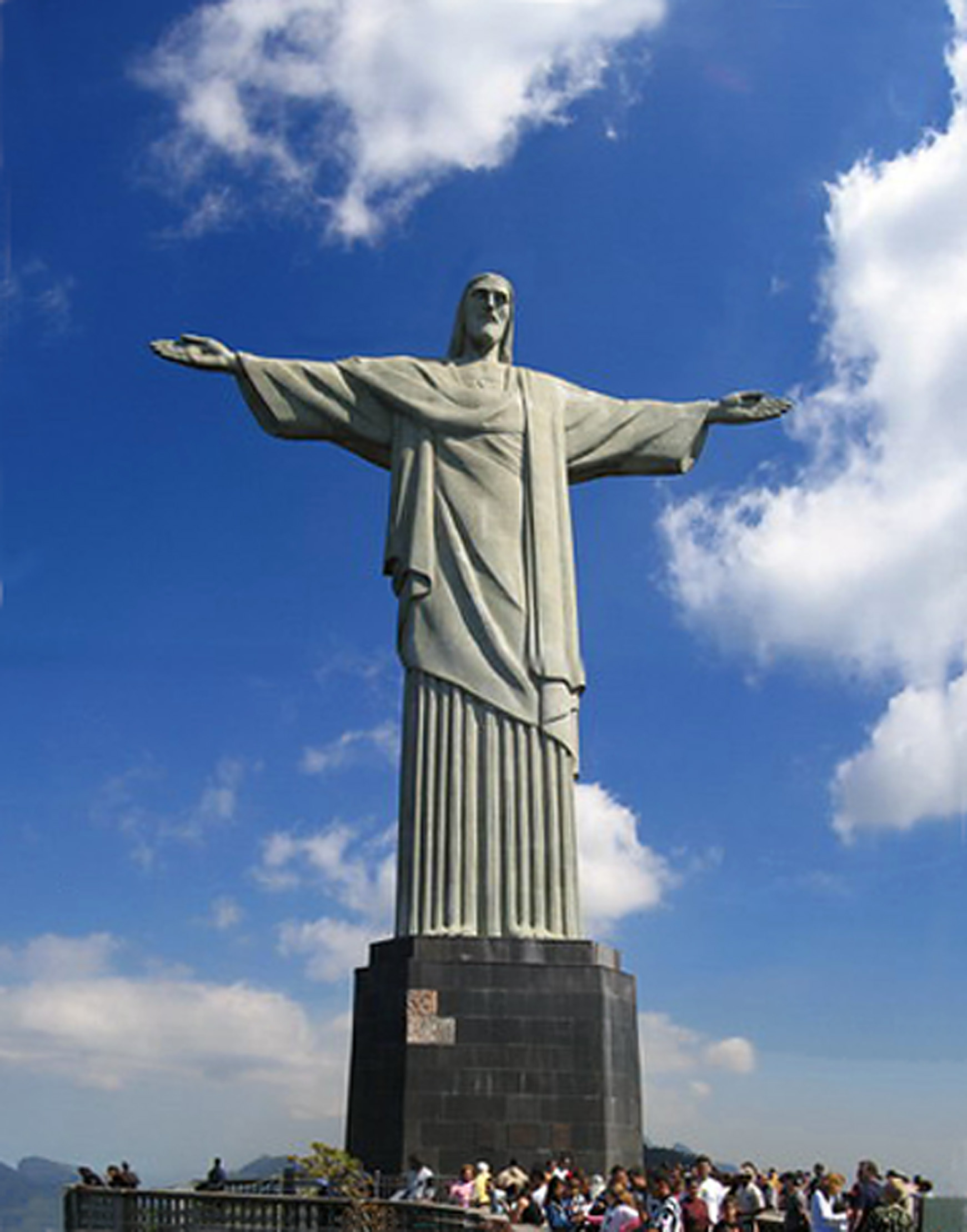 Brasil, Rio de Janeiro, The statue of Cristo Redentor atop Corcovado